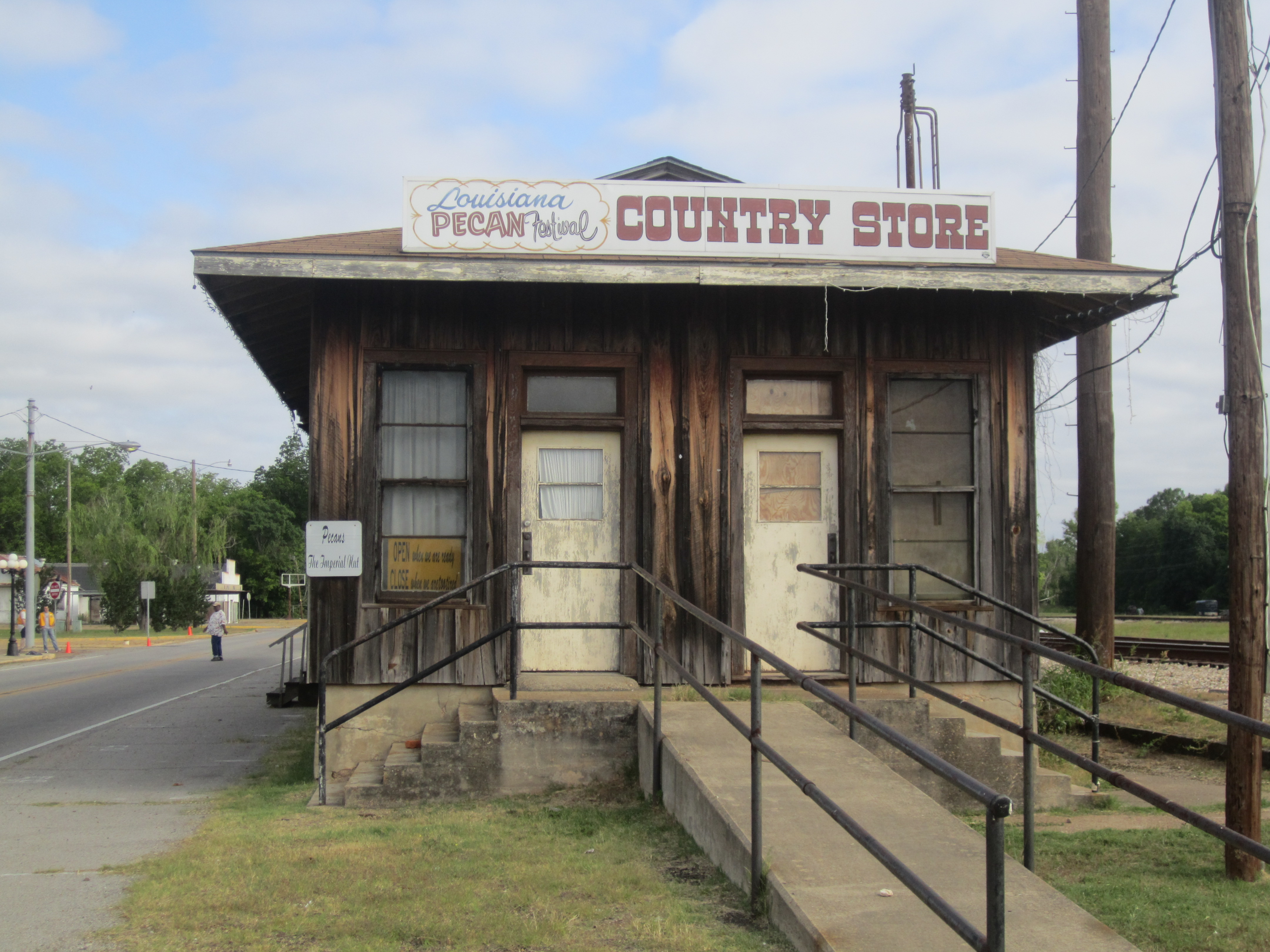 I took photo of Louisiana Pecan Festival Country Store, used in November, in Colfax, LA, with Canon camera.